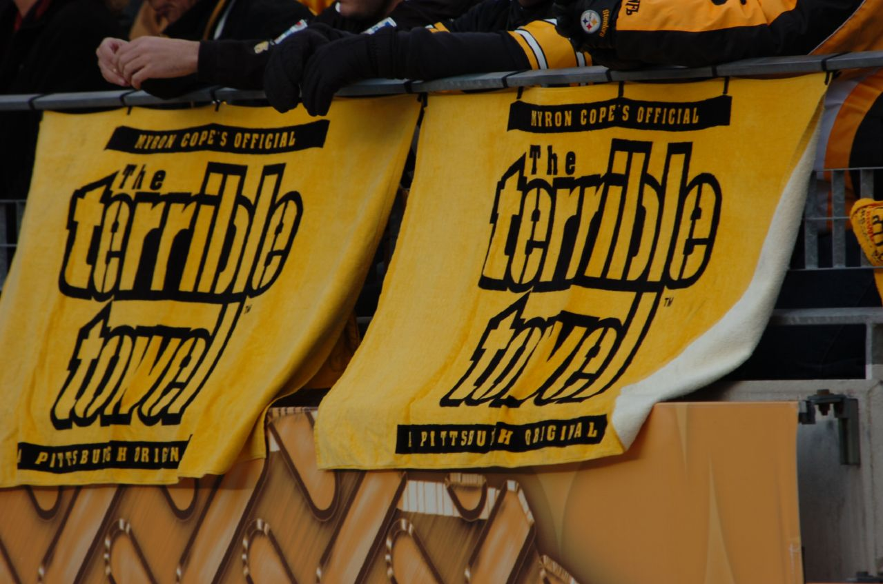 Fans of the Pittsburgh Steelers display their Terrible Towels at a home game.